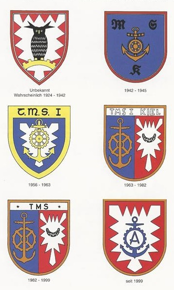 Internal coat of arms of the Bundeswehr (Armed Forces of the Federal Republic of Germany). → Remarks on naming and categorization scheme